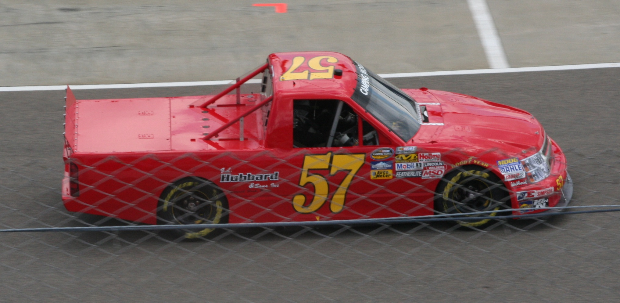 Norm Benning drives his No. 57 Chevrolet truck on pit road at Rockingham Speedway during the Good Sam Club 200 on April 15, 2012.